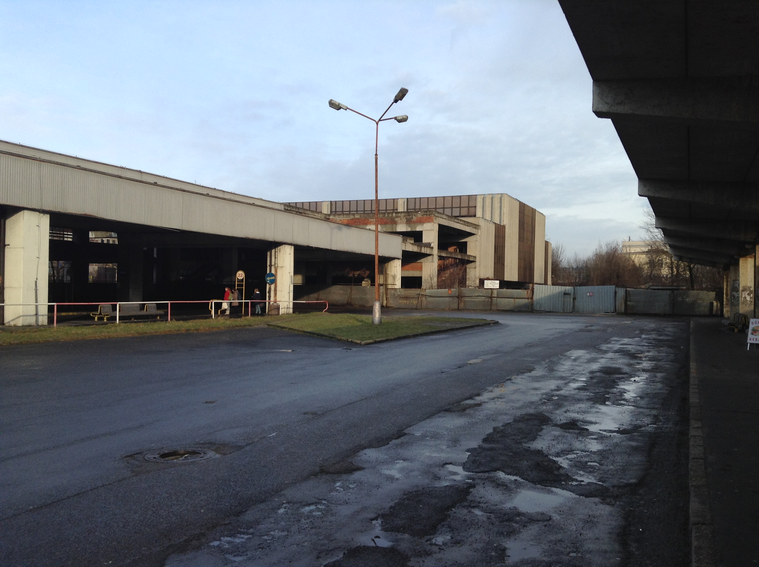 Bus terminal in Banská Bystrica, Slovakia in January 2015. A reconstruction is planned for 2015-2016.